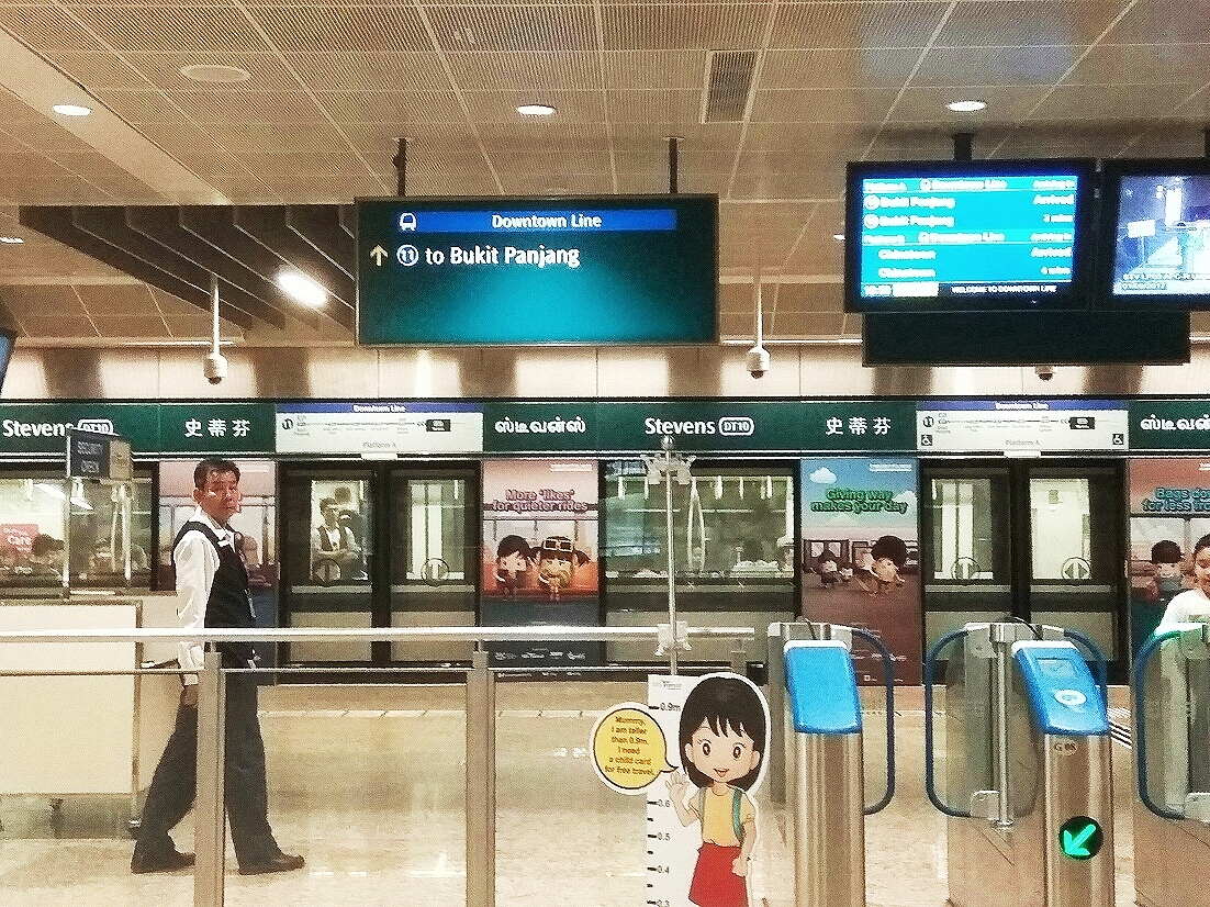 Platform A of Stevens MRT Station